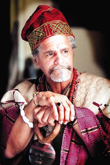 HRH Oba Adefunmi I, sits overlooking his town.